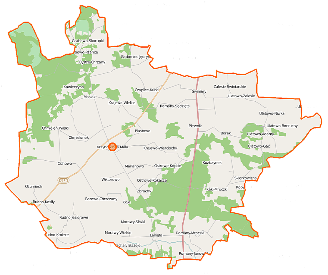 Map of Gmina Krzynowłoga Mała, Poland This map of Krzynowłoga Mała (gmina) was created from OpenStreetMap project data, collected by the community. This map may be incomplete, and may contain errors. Don't rely solely on it for navigation. Border coordinates53.237520.6831←↕→20.989753.0835